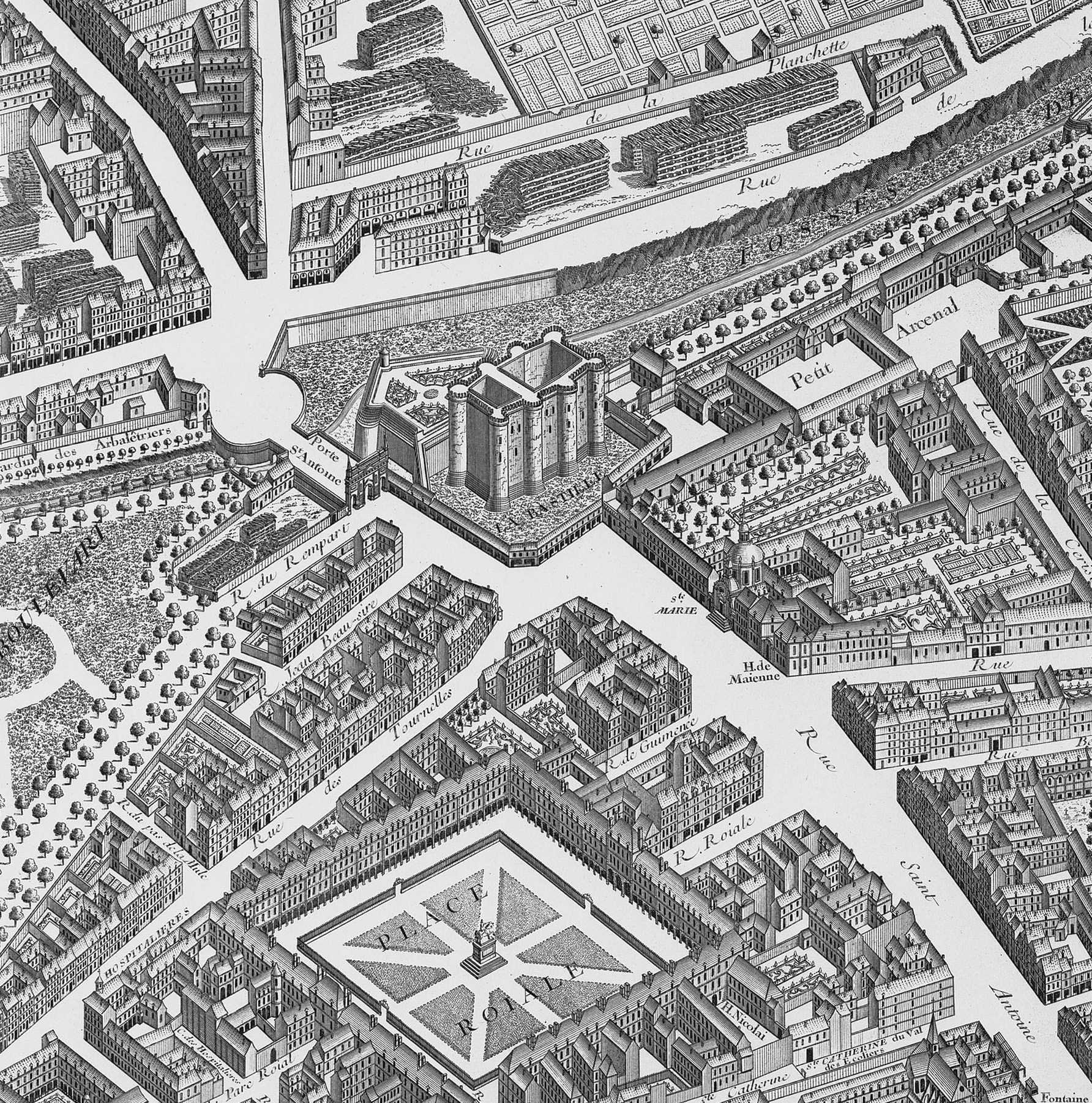 Detail from plate 6 of Turgot's 1739 map of Paris showing the Porte Saint-Antoine, Bastille, Place Royale (now the Place des Vosges), and the rue Saint-Antoine